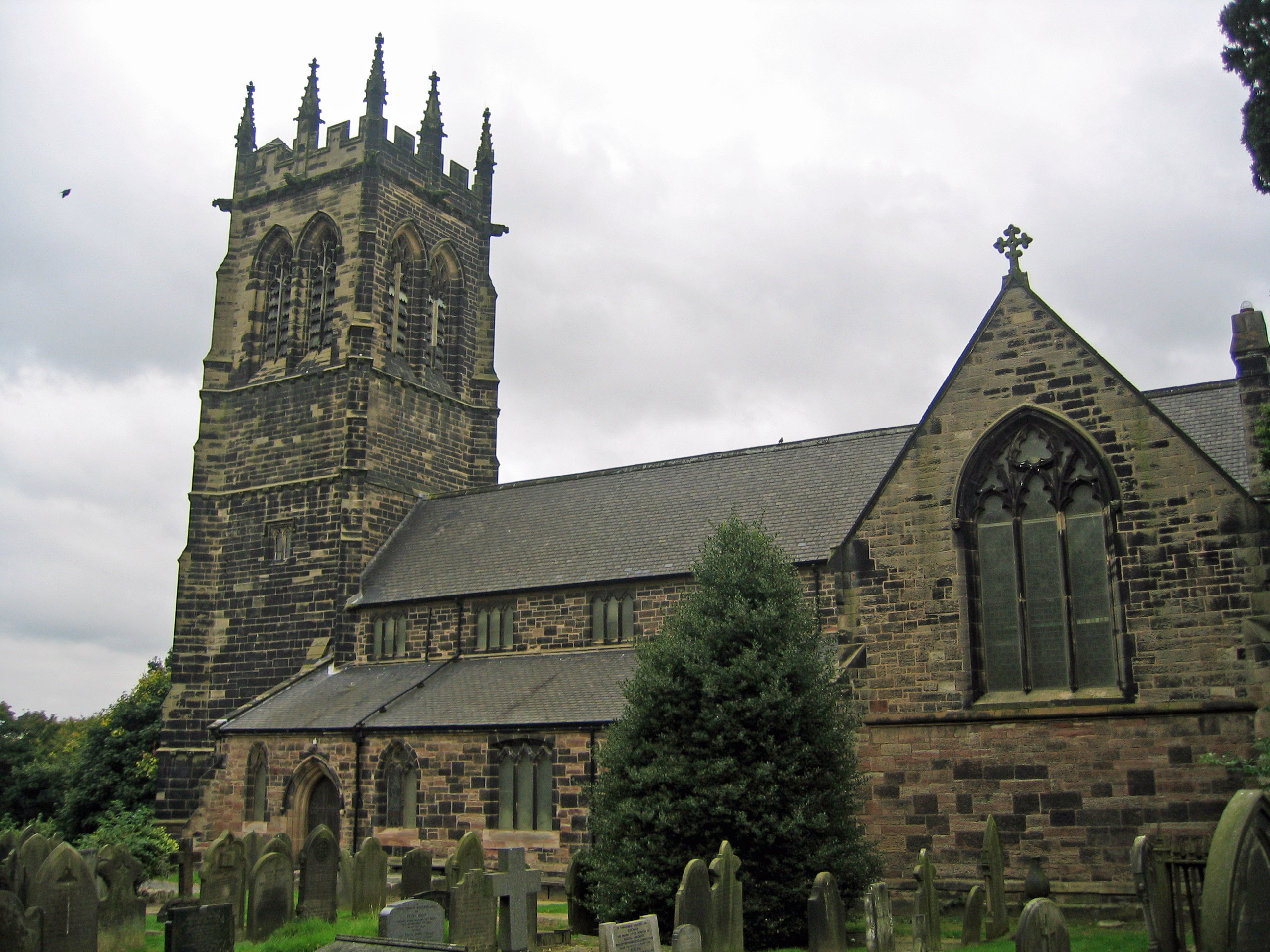 Part of the parish church of St Mary the Virgin, Lymm, Cheshire, seen from the southwest